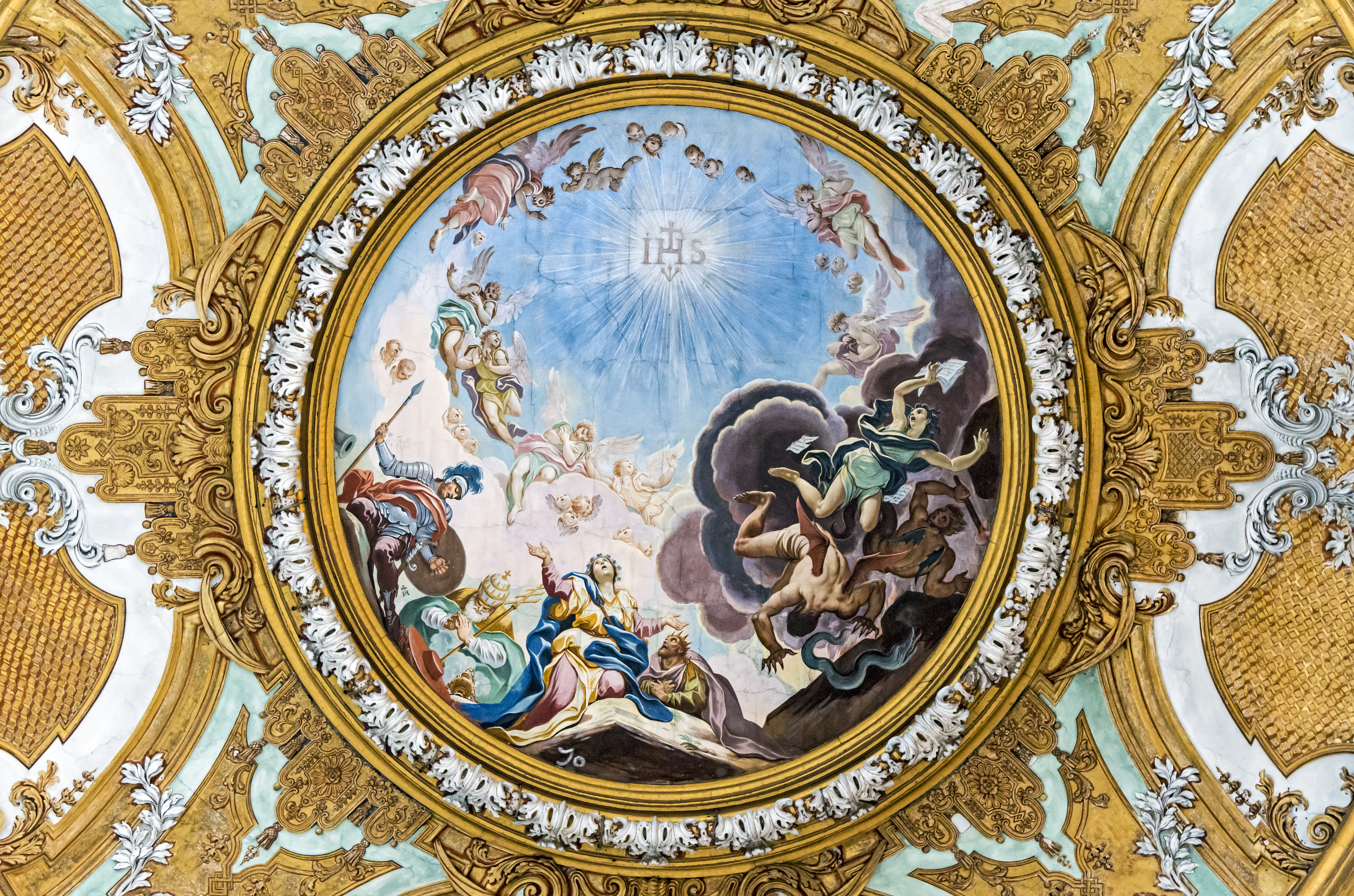 I Gesuiti, Venice left nave - Decorating the ceiling of the transept a fresco by Louis Dorigny, The triumph of Jesus, of 1732.